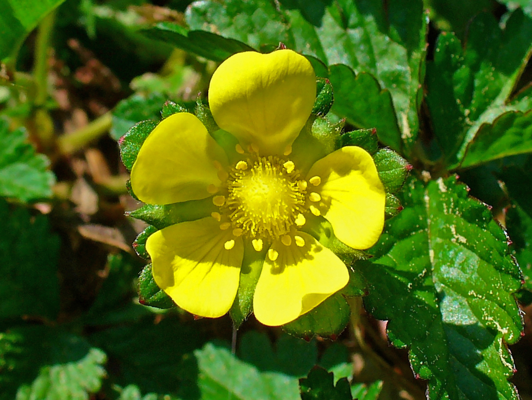 Potentilla indica, Mock Strawberry, flower. Pfinztal-Berghausen, Germany.